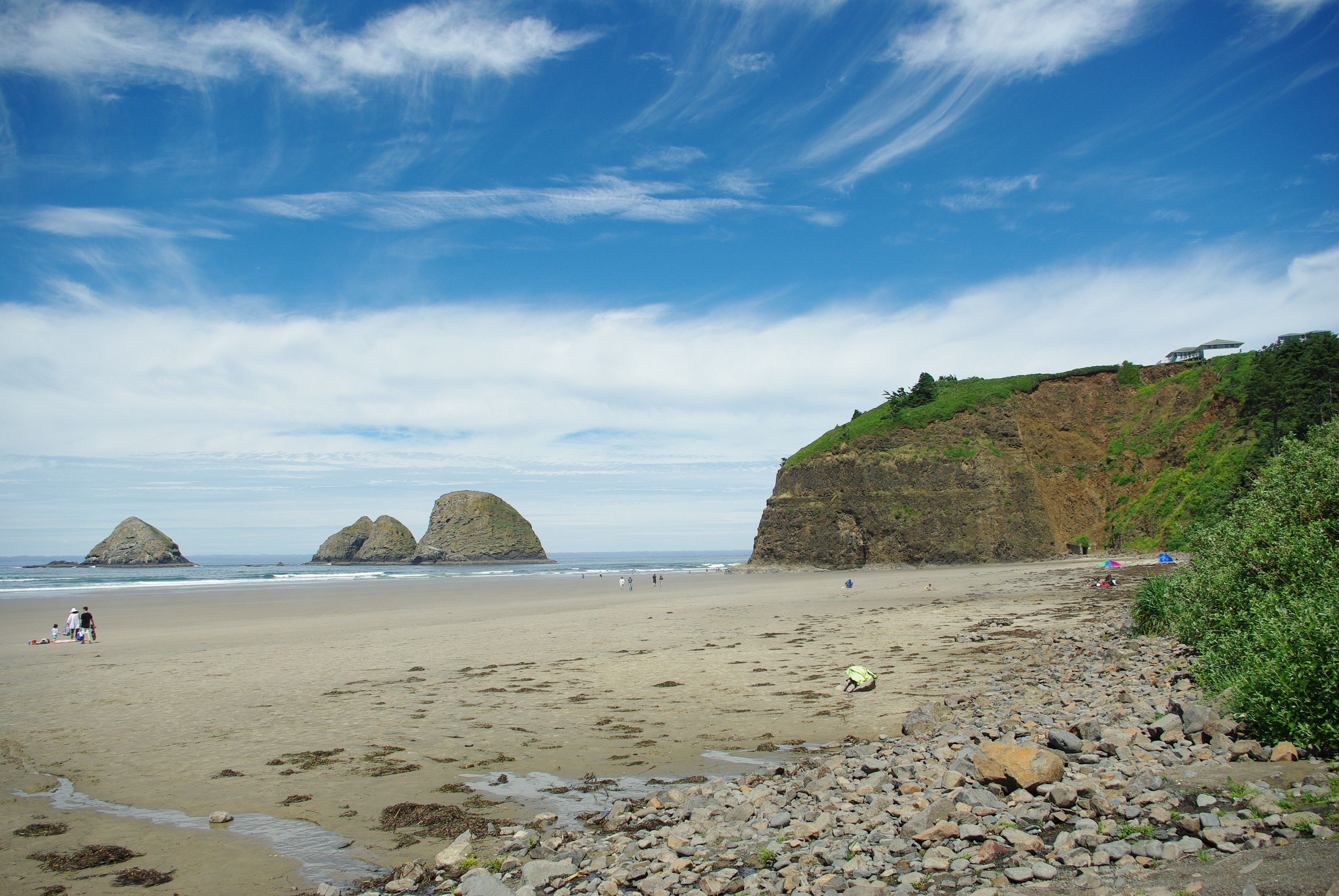 Beach at Oceanside, Oregon in June 2013.